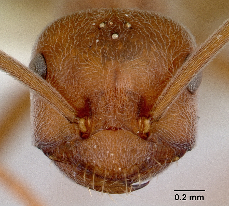 Head view of ant Melophorus anderseni specimen casent0172008.